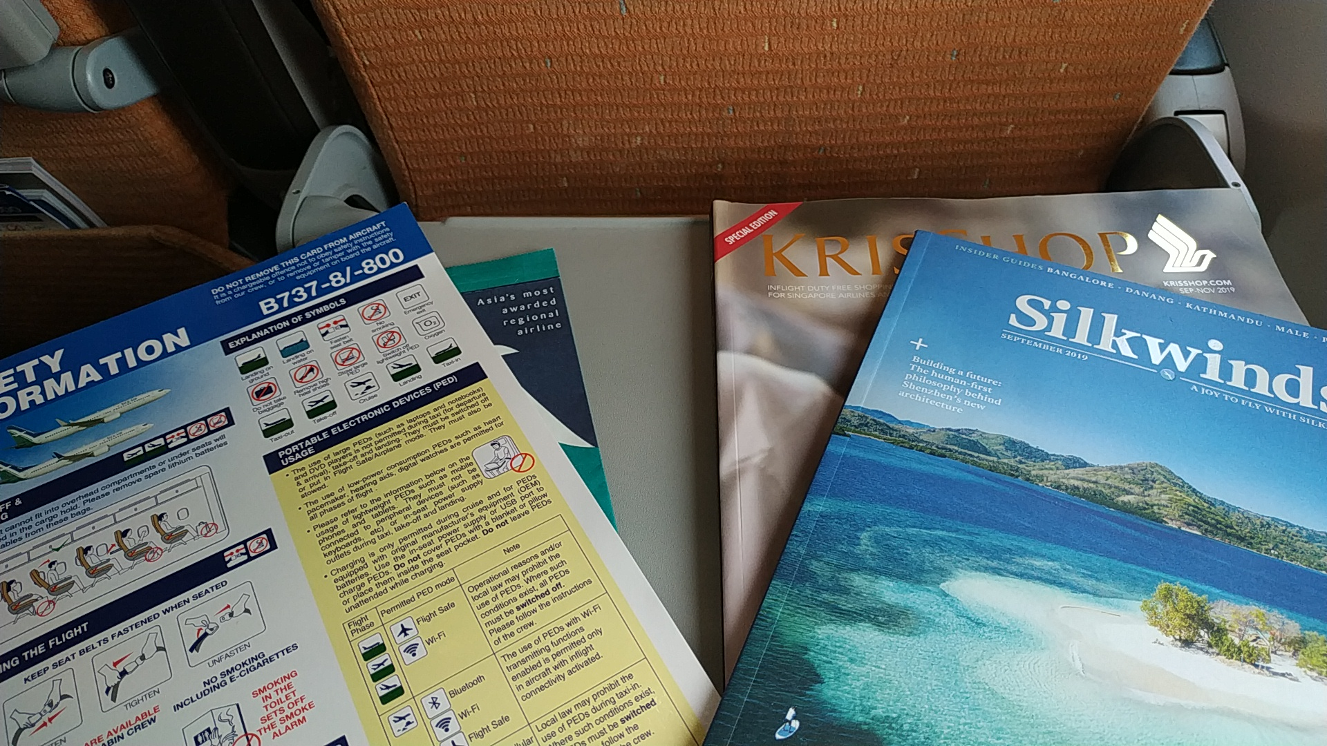 SilkAir inventory items as of September 2019.